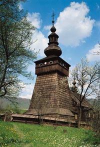 Church Archanjel Michael - Frička Village (Slovakia)